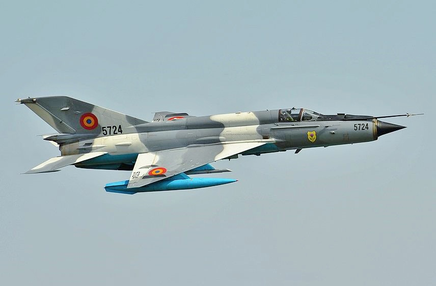 Romanian Air Force MiG-21 Lancer C.